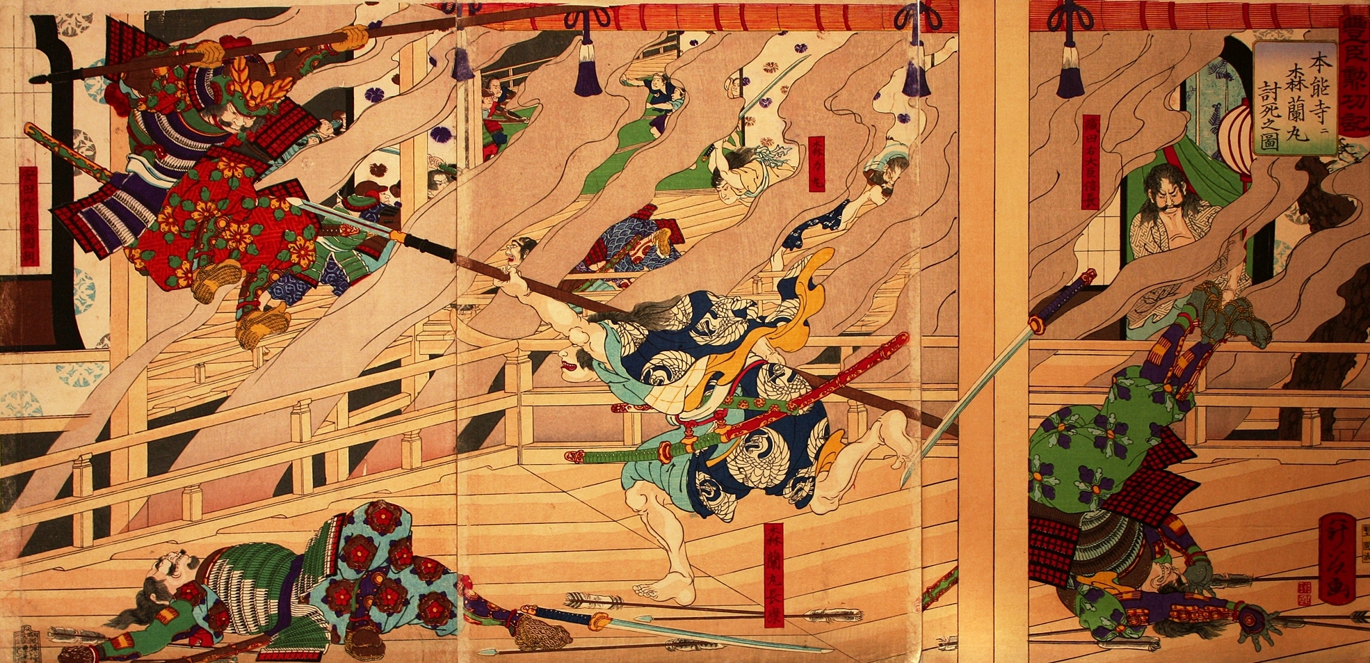 An Ukiyoe of Mori Nanmaru killed at Honnō-ji.